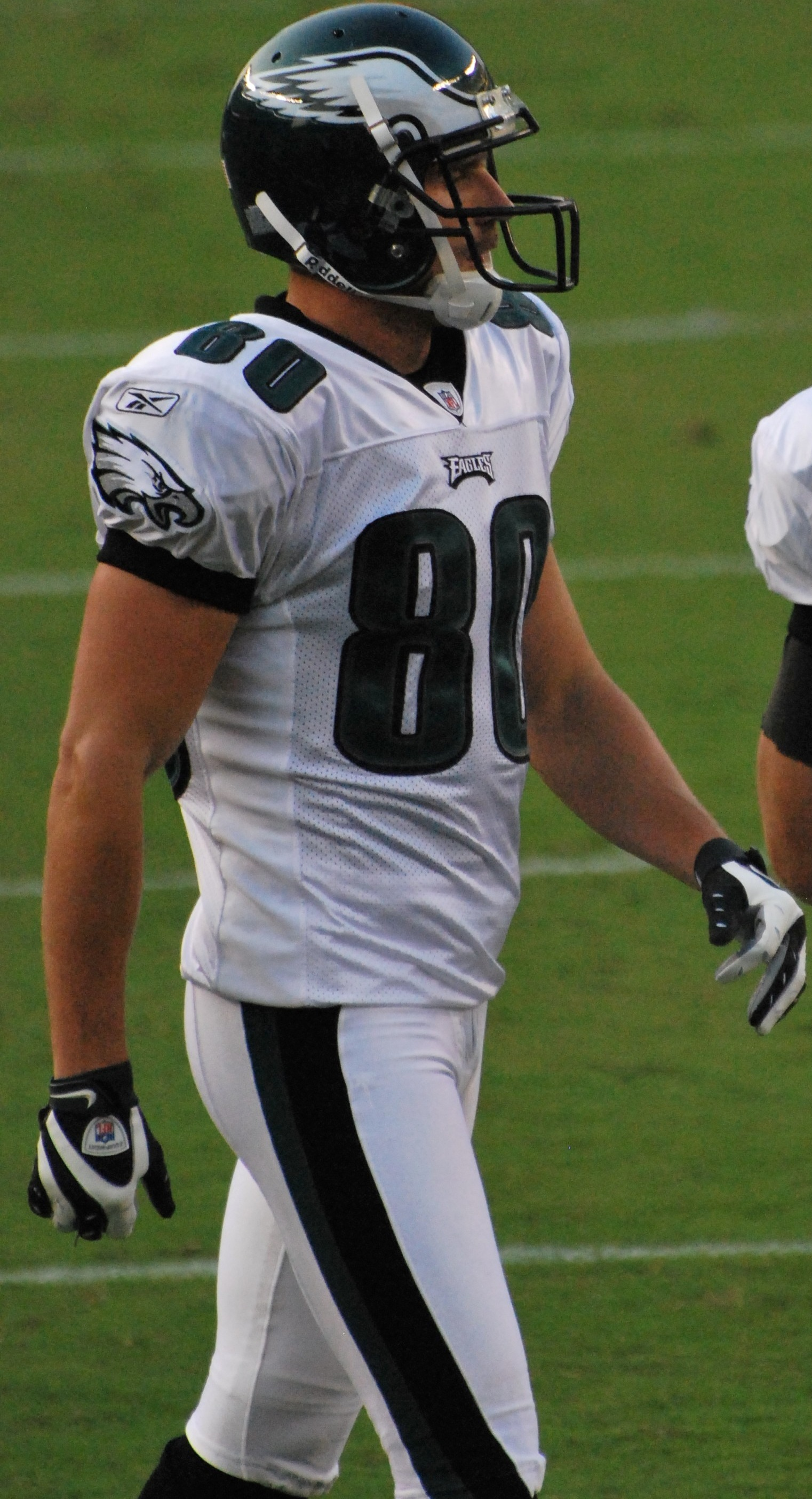 Kevin Curtis (left) with A. J. Feeley at Lincoln Financial Field in a preseason game against the Jacksonville Jaguars in August 2009.